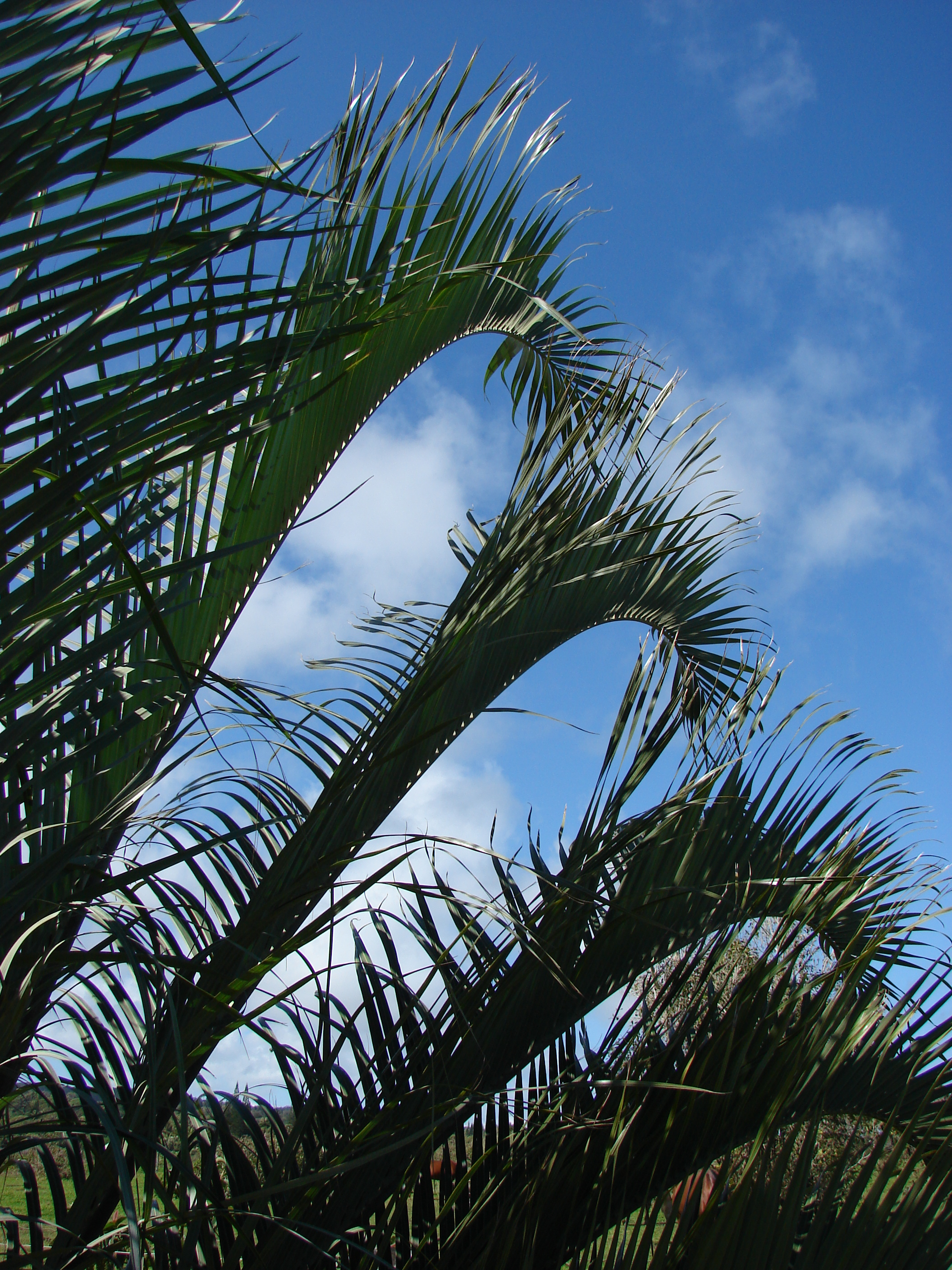 Neodypsis decaryi (fronds). Location: Maui, Huelo